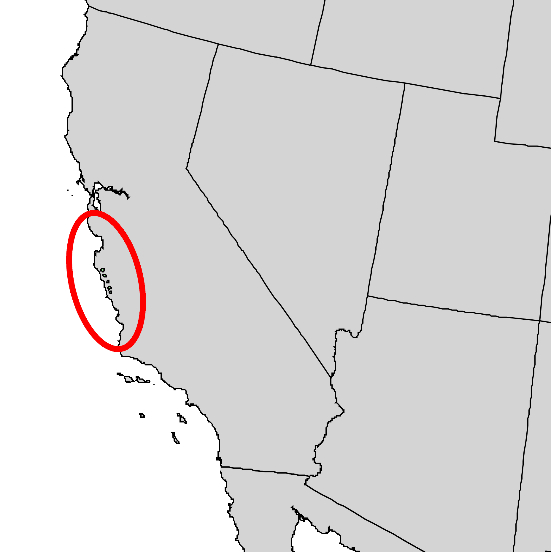 Natural distribution map for Abies bracteata (bristlecone fir)